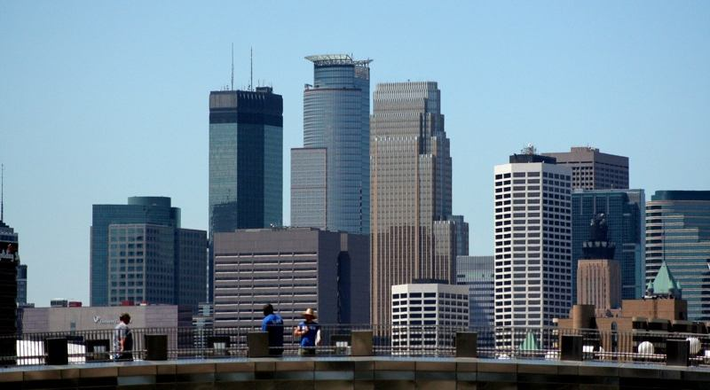 Minneapolis, Minnesota. Image has been cropped.skyline Minneapolis